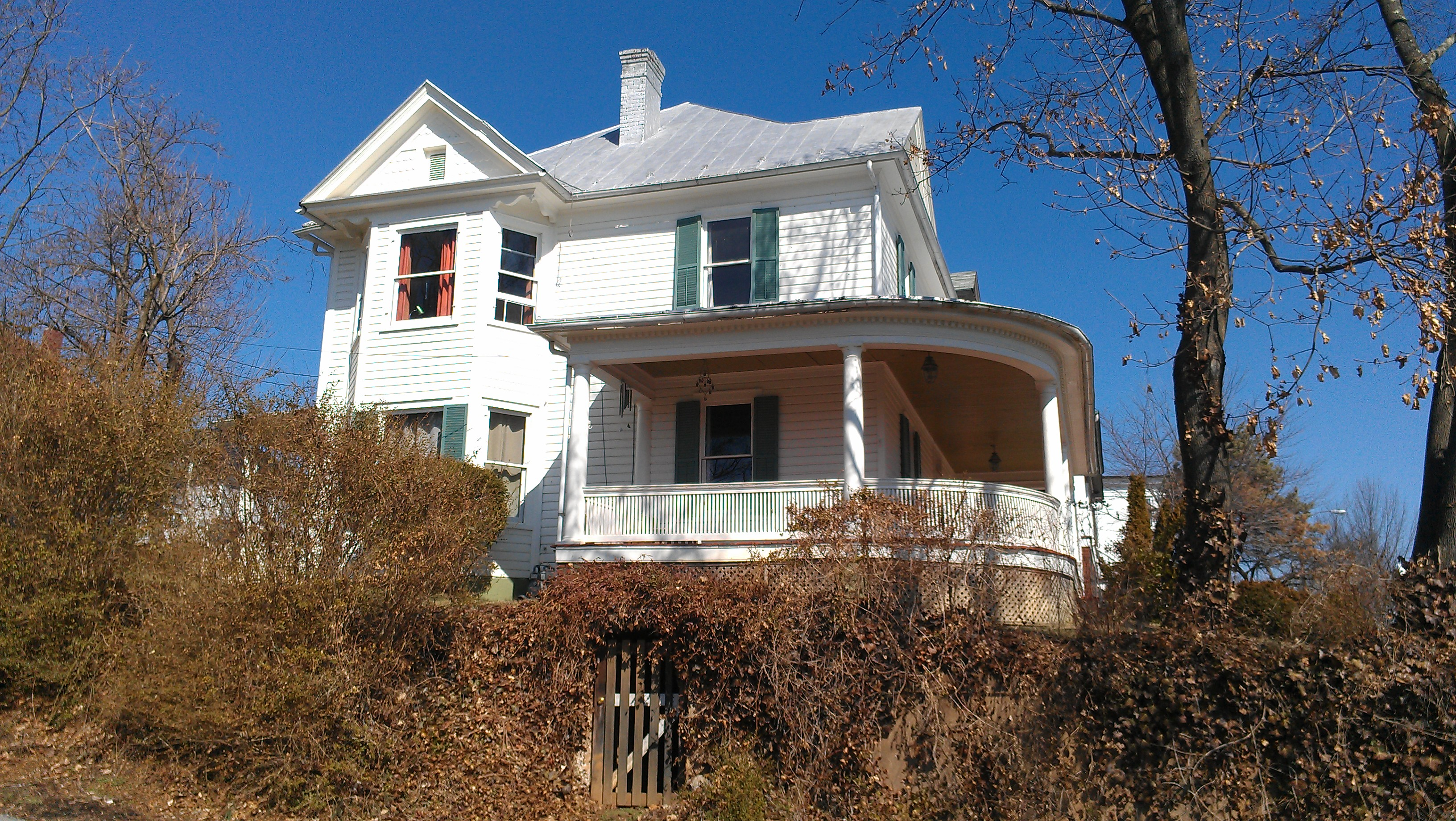 126 Madison Place in Staunton, Virginia, 24401. Former home of Eustace Mullins.